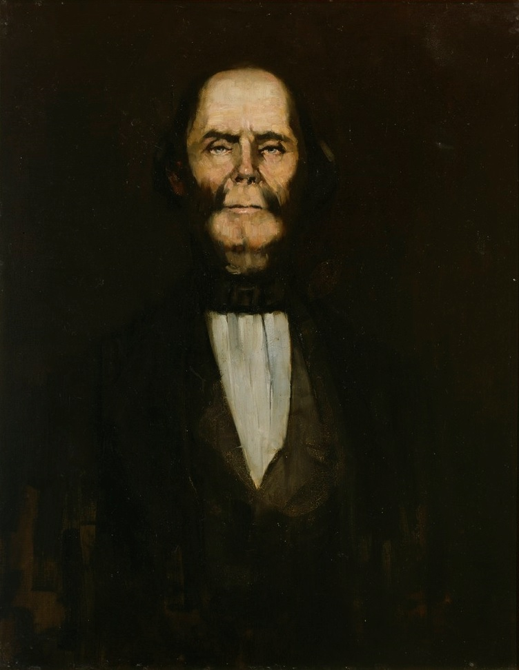 Portrait of convict William Buckley, oil on canvas, 88.7 x 68.4 cm